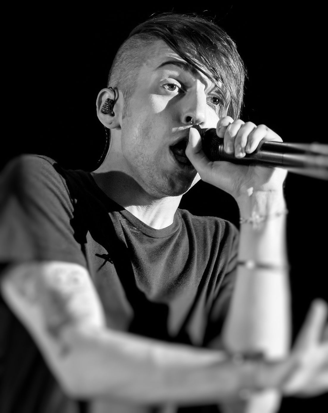 Mitch Grassi performing with Pentatonix performing at the Austin360 Amphitheater in Austin, Texas on August 29, 2015.